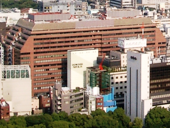 The daVinci Shiba Park (formerly known as Shuwa Shiba Park Building) ダヴィンチ芝パーク（旧・秀和芝パークビル）